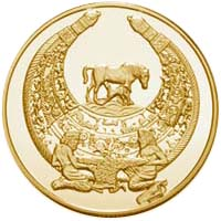 Coin of Ukraine